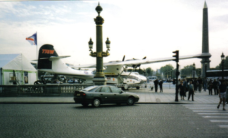 Former PBY Catalina seen here Place de la Concorde in Paris for Champs d'Aviation 1998 aero exhibition.